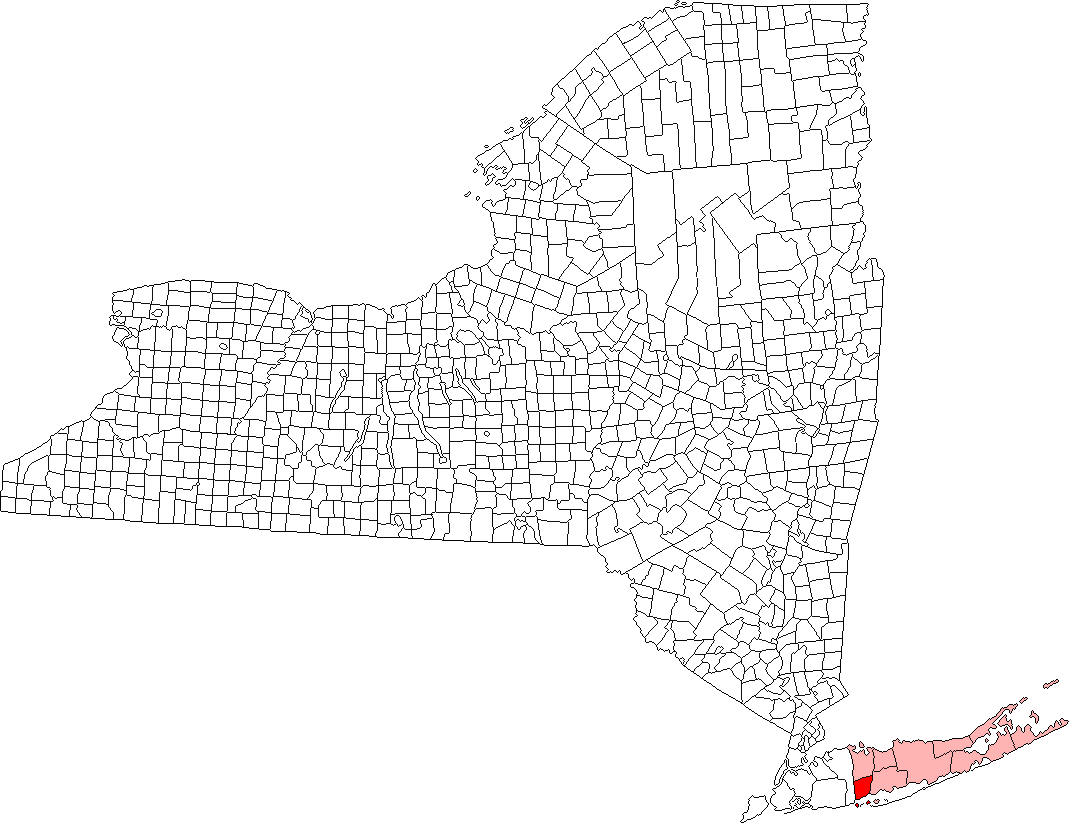 Location of the town of Babylon in Suffolk County, New York.